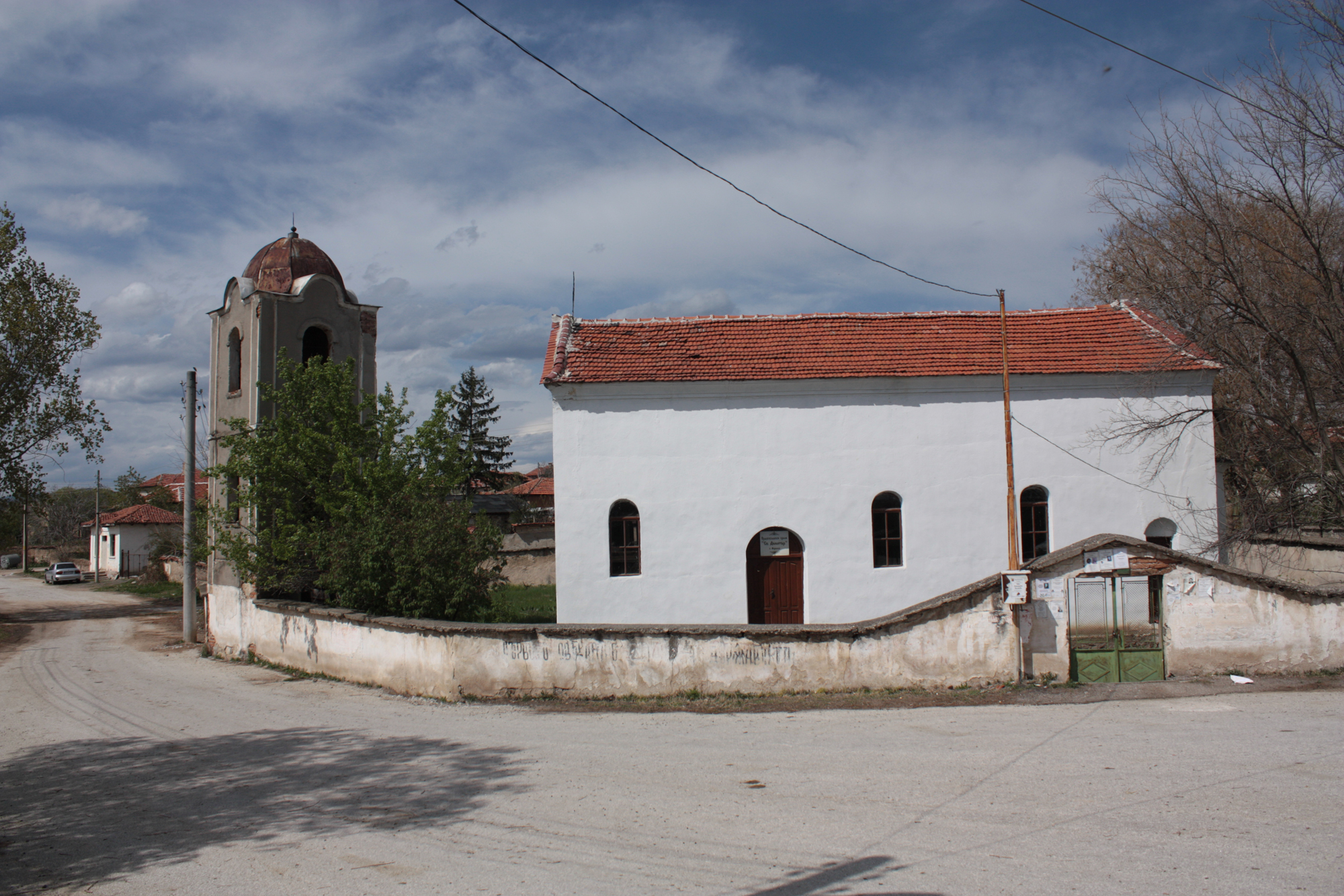 Orthodox church St Demetrius in Apriltsi village, Bulgaria